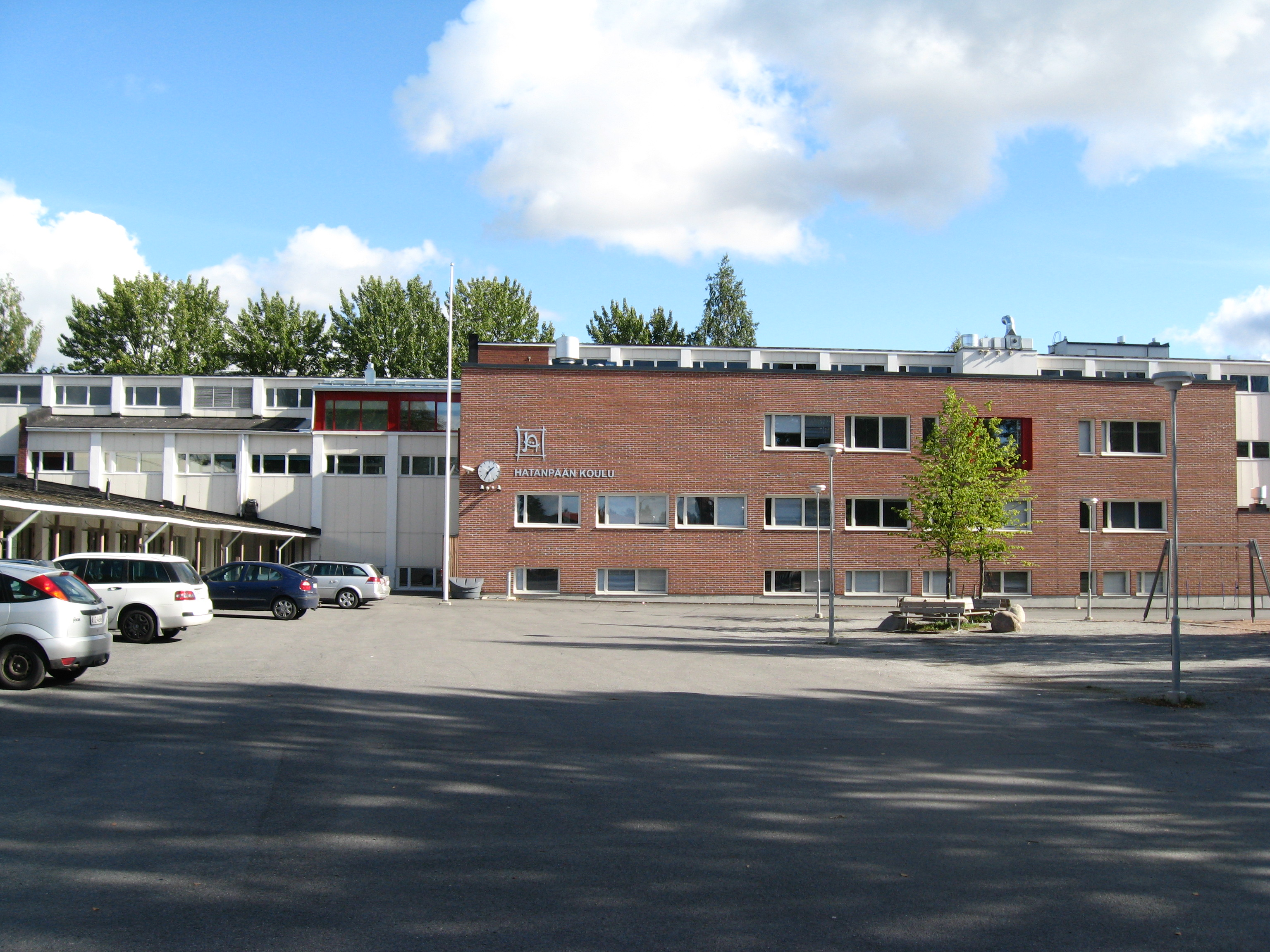 Hatanpää shcool.